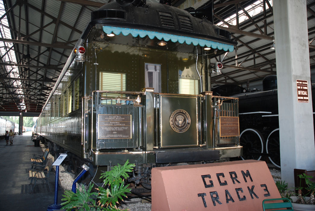 The Ferdinand Magellan Presidential Railcar at the Gold Coast Railroad Museum. Miami, September 29, 2007. Author: User:Alexf.